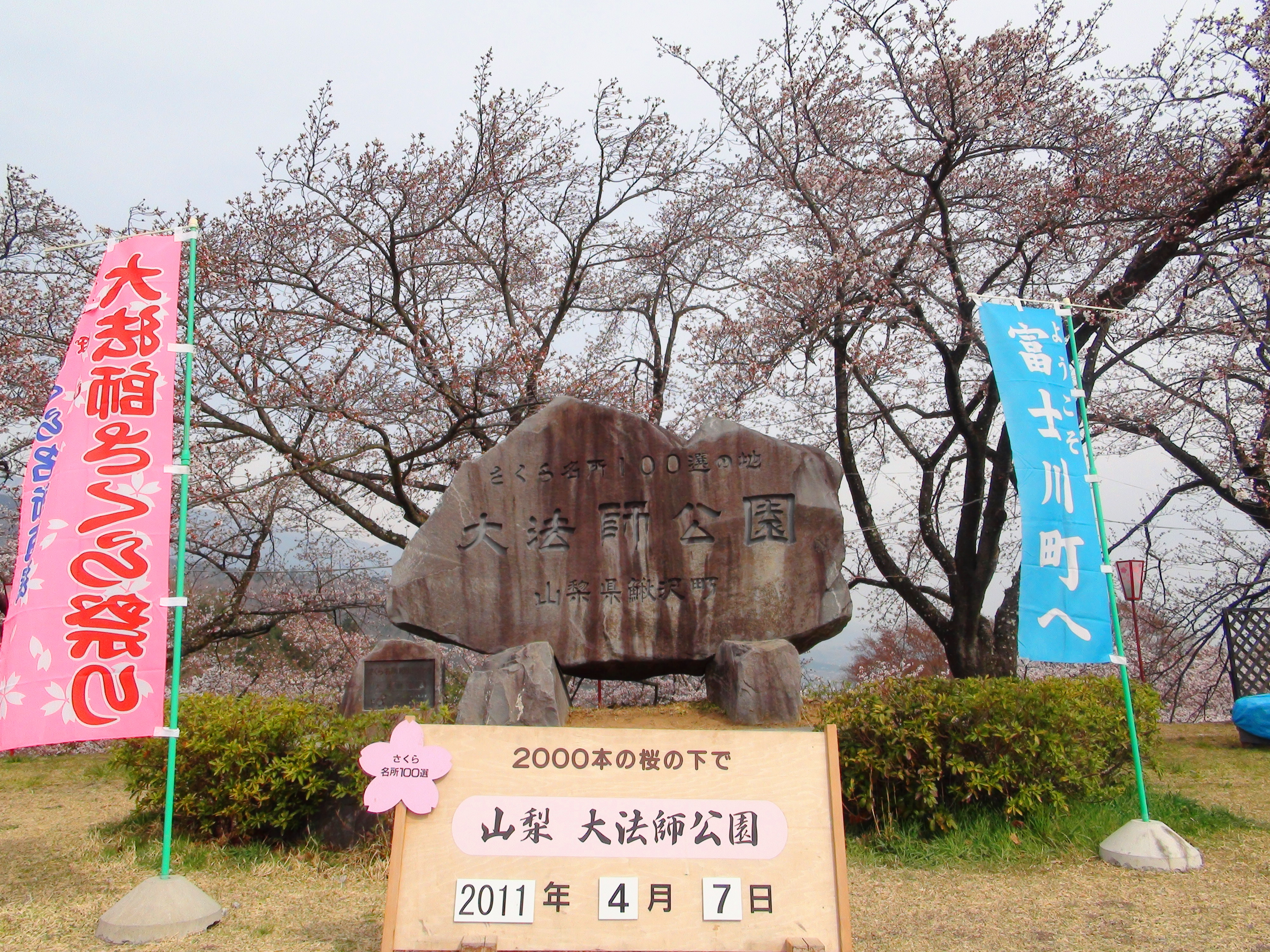 Oboshi-Park cherry blossoms Monument